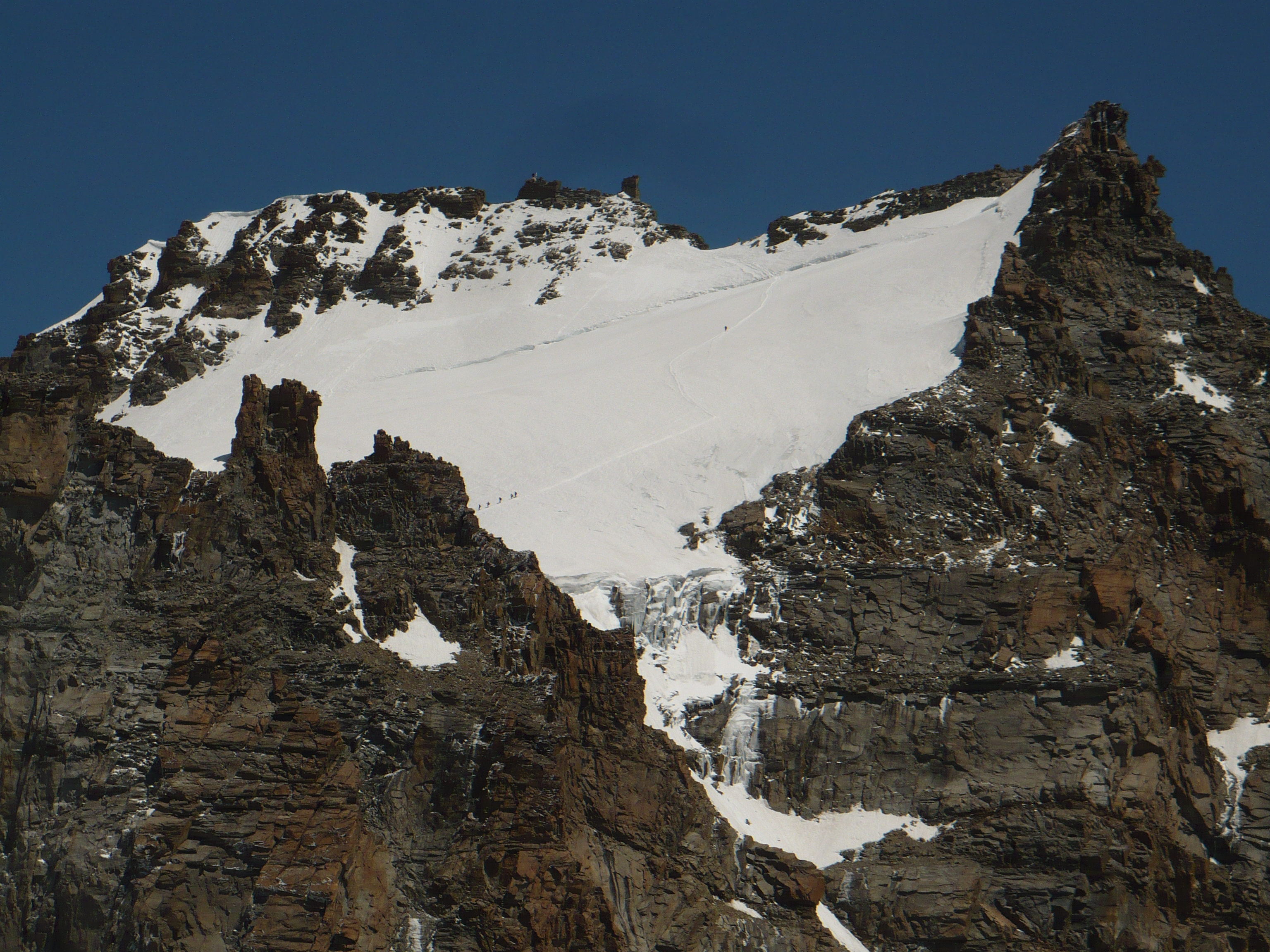 Gran Paradiso summit; Graian Alps, Aosta Valley, Italy